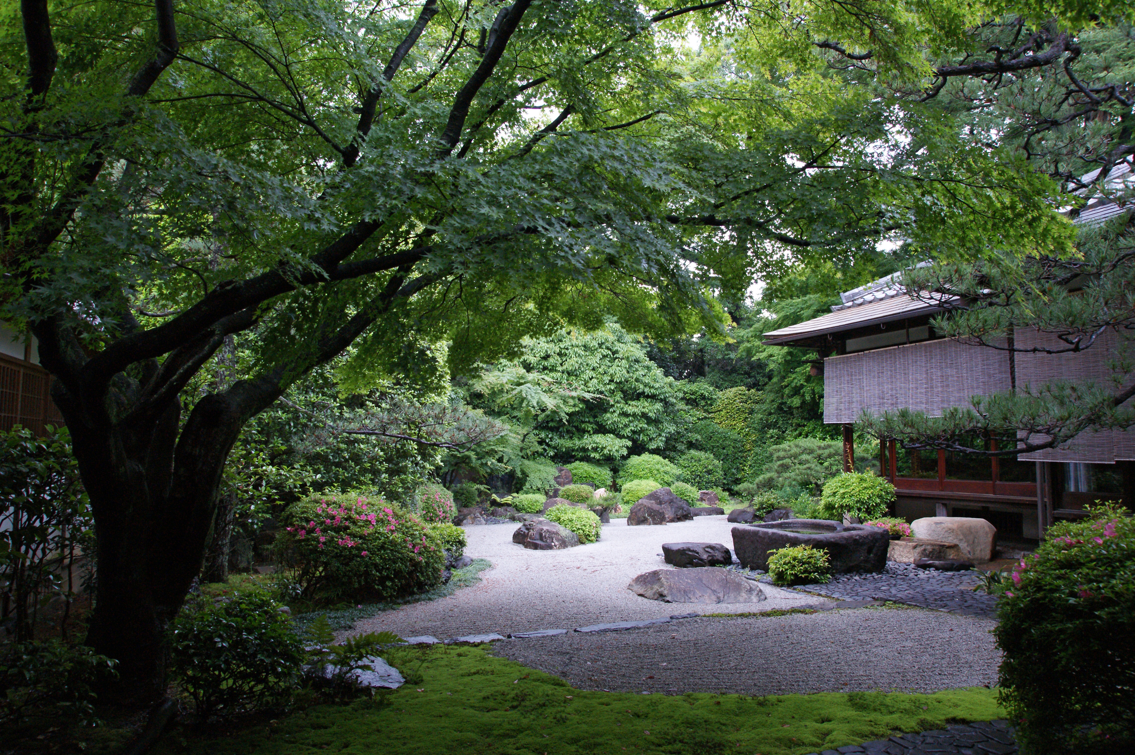 Gokogu-jinja in Kyoto, Kyoto prefecture, Japan